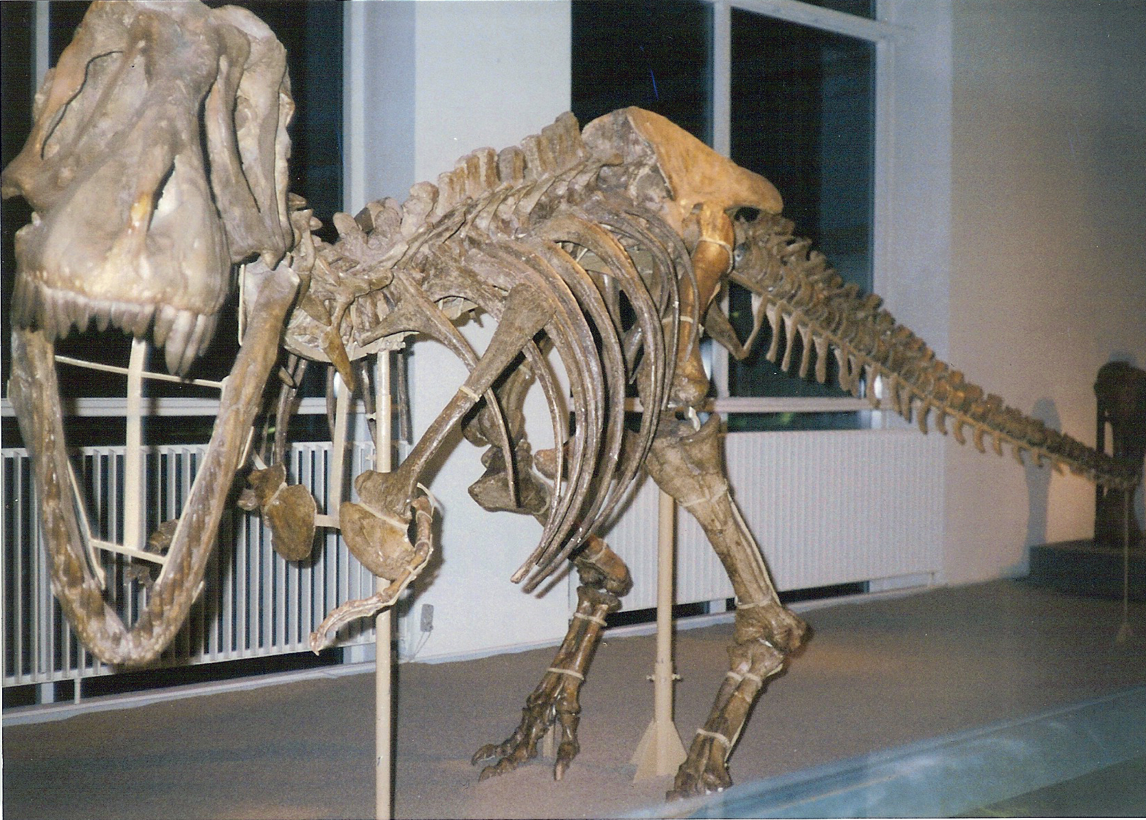 Mounted Tarbosaurus skeleton, exhibited in Experimentarium, Denmark.